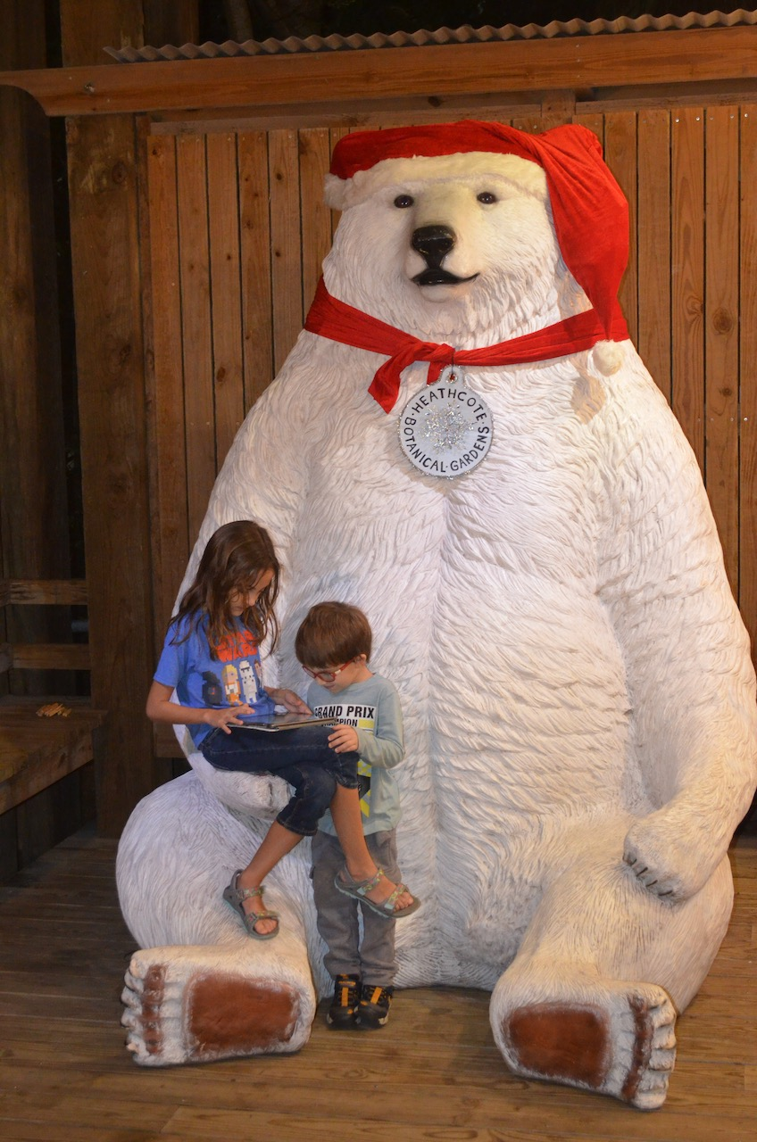 Heathcote Botanical Gardens is a five-acre botanical garden in Ft. Pierce, Florida.